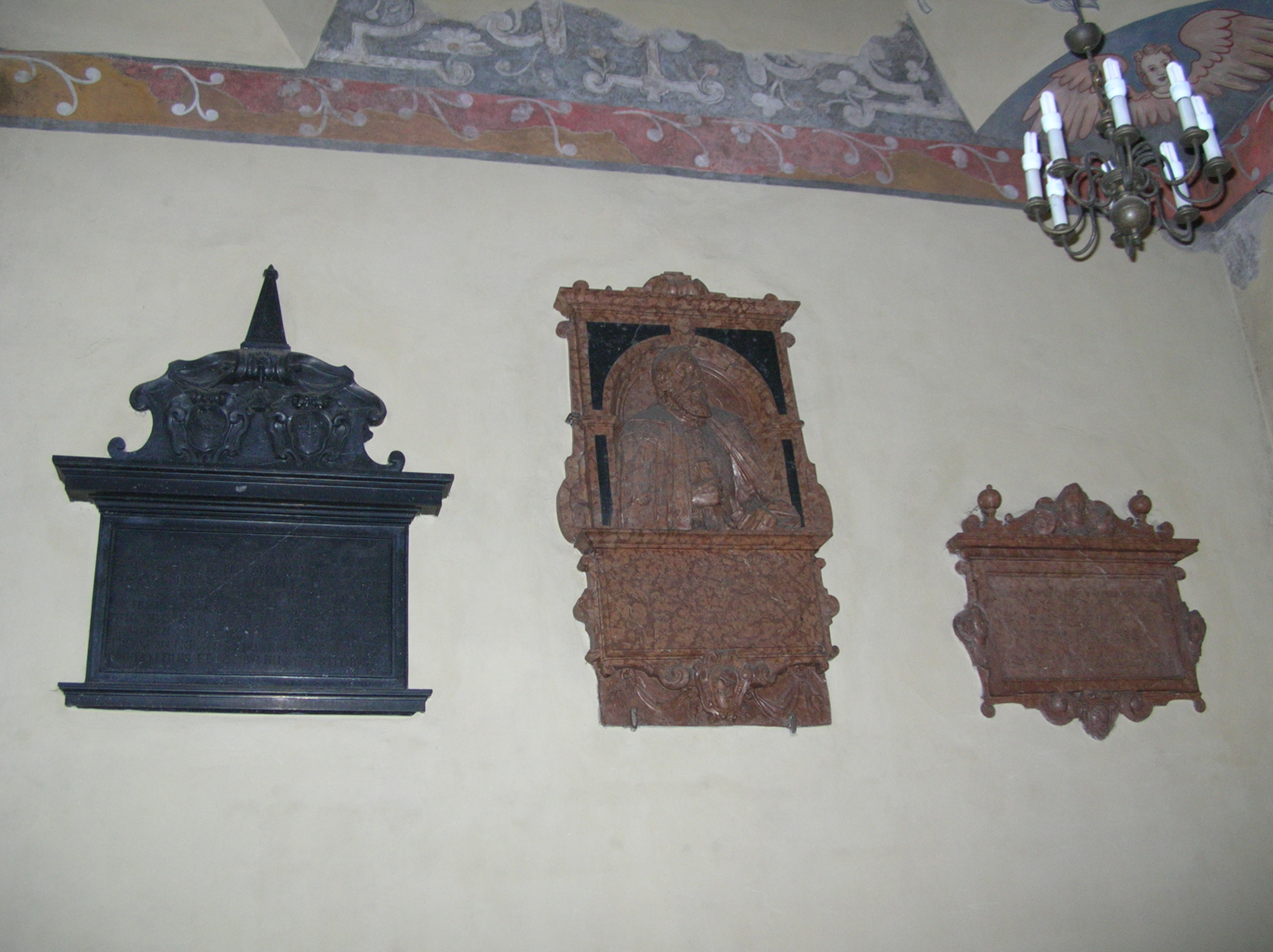 Epitaphs for Kochanowski family. Middle one - Jan Kochanowski. Church in Zwoleń.